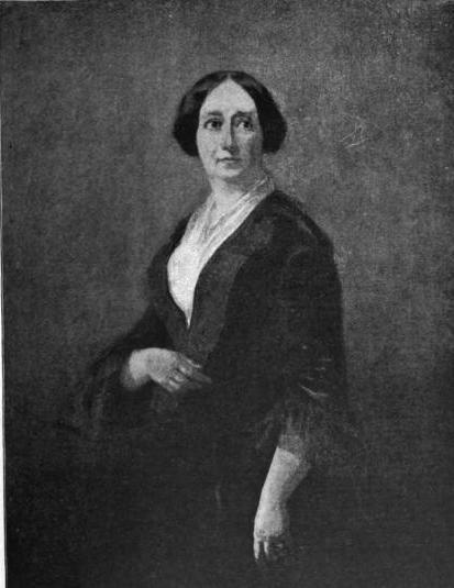 "Portrait of HIs Mother," by Boston painter William Morris Hunt. Hunt's first portrait was that painted of his mother, Jane Leavitt Hunt, executed at his Paris studio at 3 rue Pigalle in 1850. The three-quarter length portrait shows his mother facing the artist.